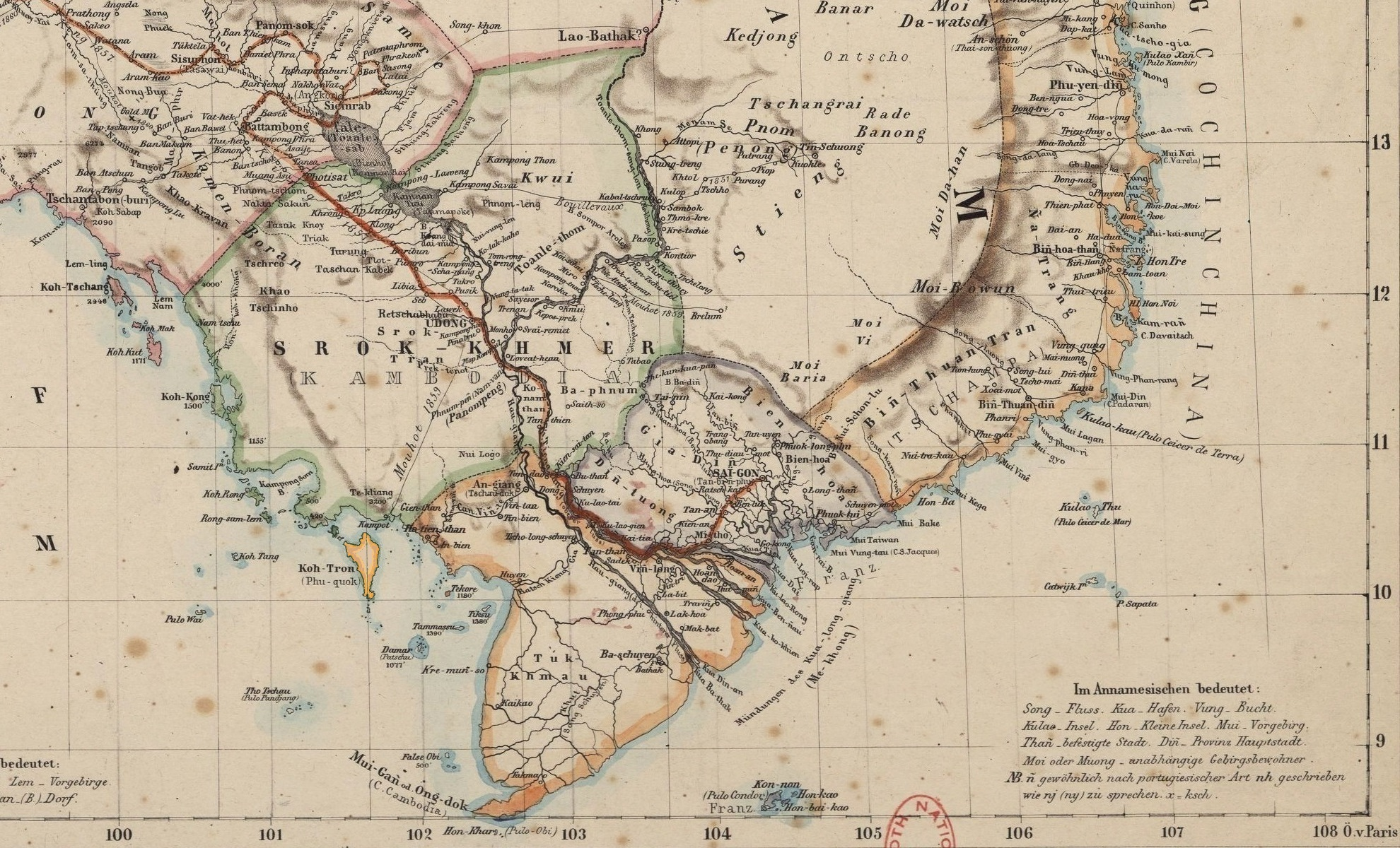 Titre : Die indonesischen Reiche Birma, Siam, Kambodja und Annam, zu Dr. Adolf Bastian's Reise / entworfen von Heinrich Kiepert... ; Lithographische Anstalt von Leopold Kraatz, in BerlinAuteur : Kiepert, Heinrich (1818-1899). Auteur du texteAuteur : Kraatz, Leopold (18..-190.? ; lithographe). GraveurAuteur : Bastian, A. (18..-18..?). Auteur du texteÉditeur : Hermann Costenoble (Iena)Date d'édition : 1867Sujet : Découverte et explorationSujet : Plans de villeSujet : VoyagesSujet : Indochine françaiseSujet : BirmanieSujet : Siam, Royaume deSujet : CambodgeSujet : AnnamSujet : Mandalay -- EnvironsSujet : BangkokType : carte,image fixeLangue : AllemandFormat : 1 flle : avec limites et tracés col. ; 52 x 43 cmFormat : image/jpegDroits : domaine publicIdentifiant : ark:/12148/btv1b84912617Source : Bibliothèque nationale de France, département Cartes et plans, GE D-13234Relation : : FranceCouverture : BirmanieCouverture : ThaïlandeDescription : Échelle(s) : 1:4 000 000Provenance : bnf.frDate de mise en ligne : 25/10/2012source